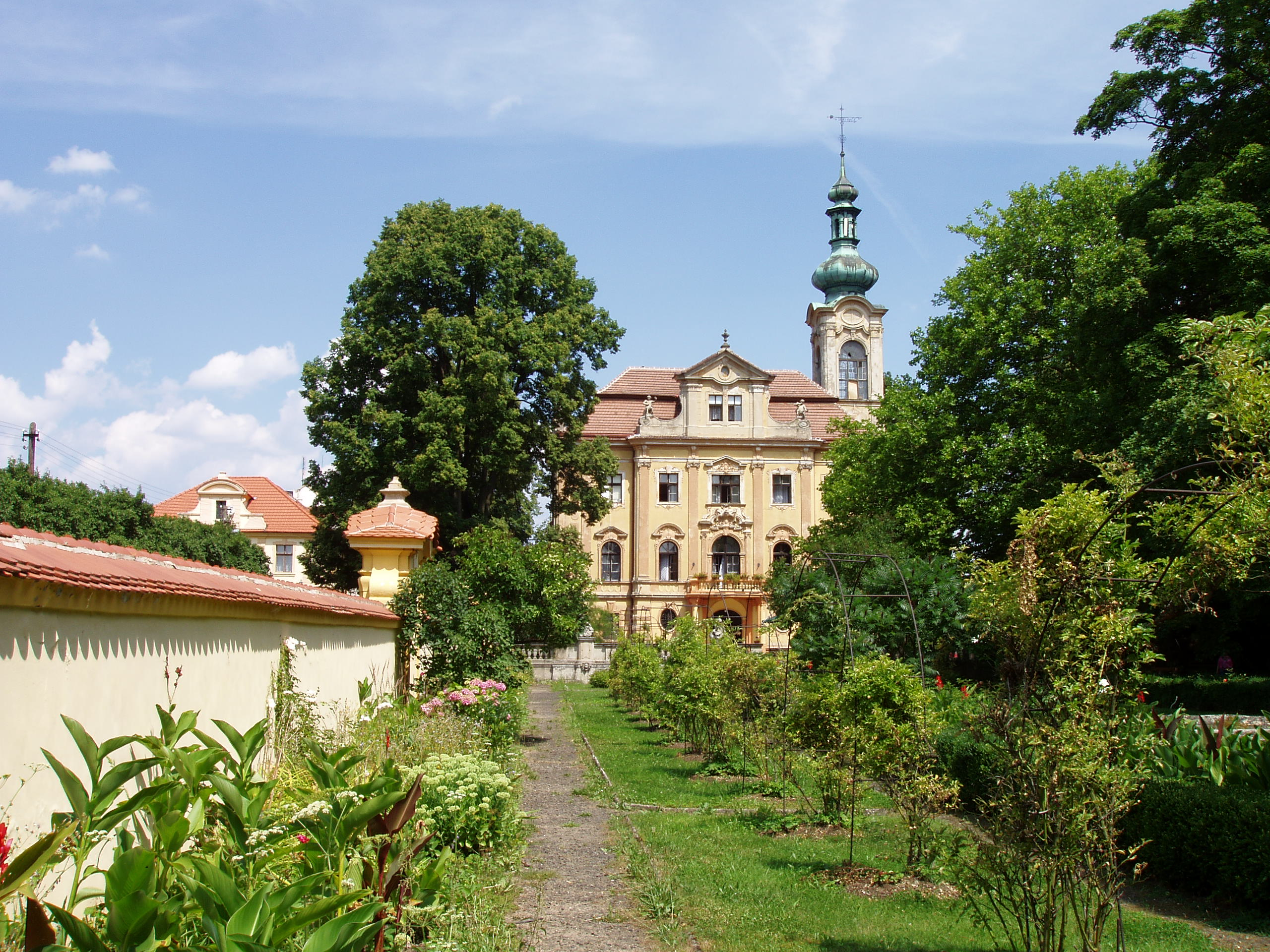 Chateau Vidim, Czech Republic